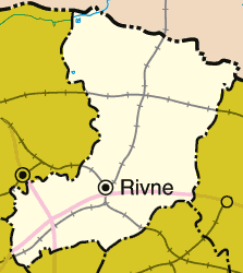 Map of Rivne Oblast, Ukraine Adapted from